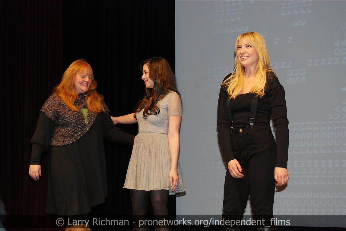 Lauren Miller and Ari Graynor at the "For a Good Time, Call..." World Premiere on Sunday, January 22, 2012 at the Eccles Theatre in Park City, Utah